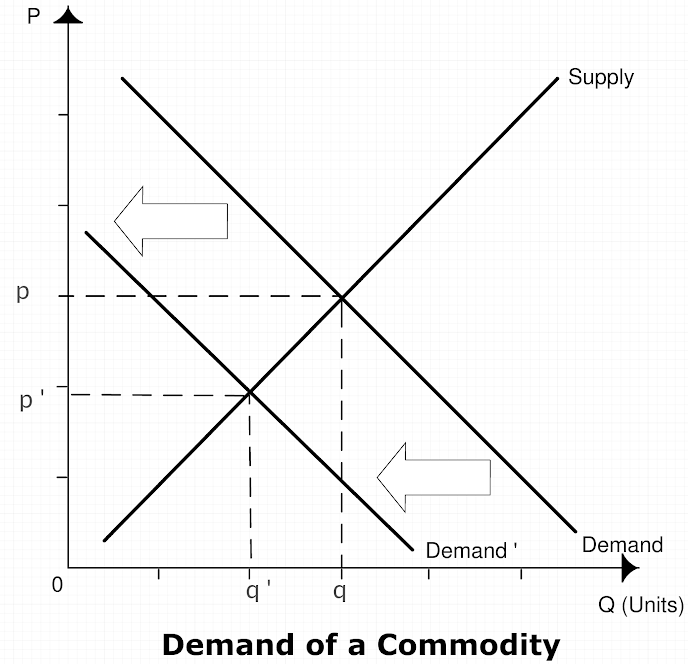 Effects of demand shifting in on quantity on price